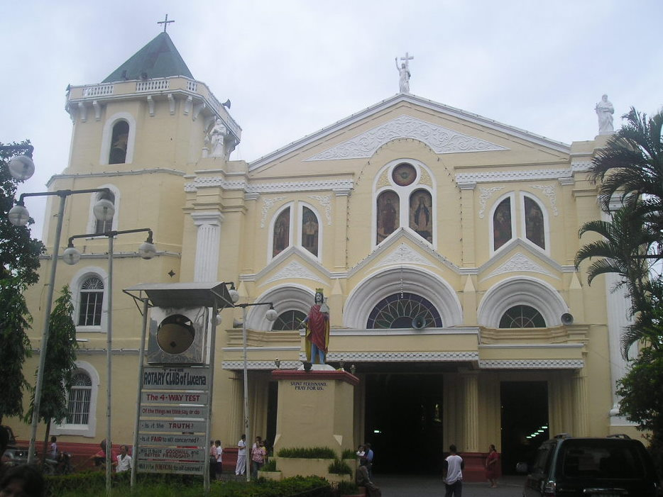 Cathedral Church Lucena City (Philiphines).